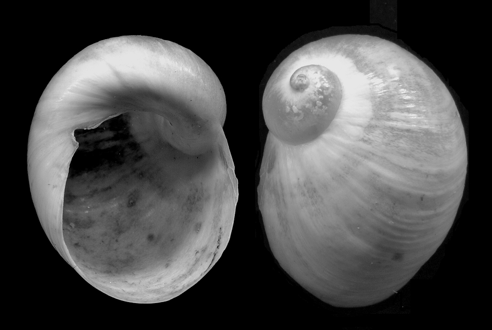 Photo of a shell of Coriocella nigra from the island of Rodrigues, East Mauritius, Indian Ocean, 2005. Size is 19 mm.